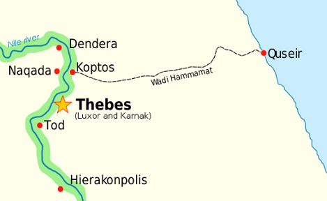 crop of small section of Commons image, showing a map of the Wadi Hammamat on the upper Nile river, from historical map of Ancient Egypt